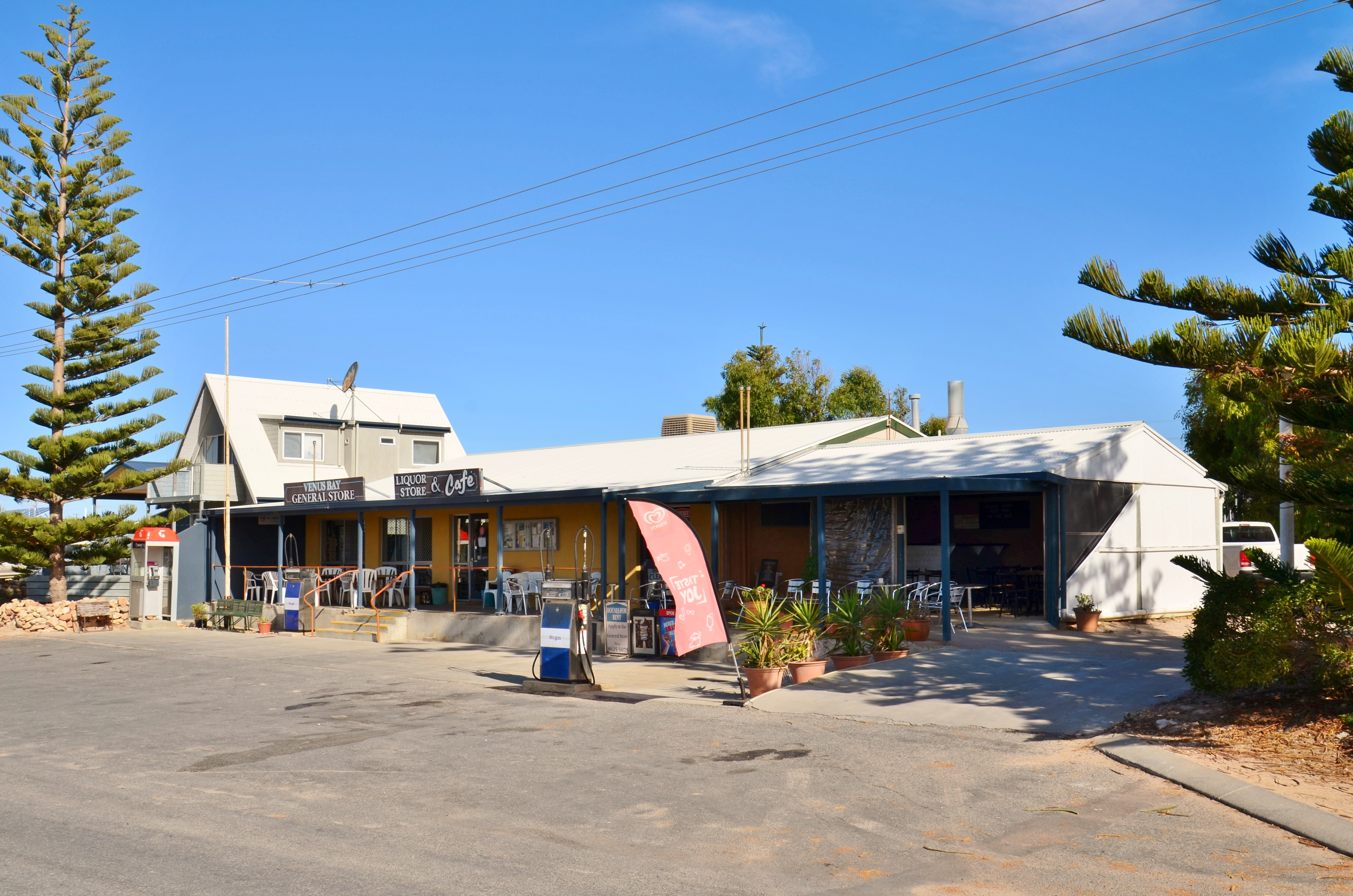 View of the Venus Bay General Store, Venus Bay, South Australia